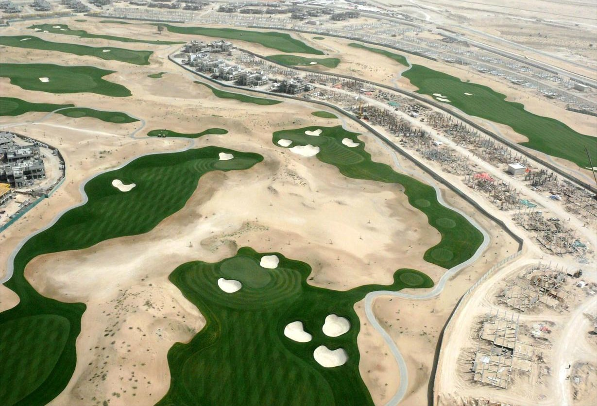 This is an aerial view of Dubai Sports City, located in Dubai, United Arab Emirates, on 8 May 2008. This photo was taken from a helicopter ride courtesy of Nakheel.